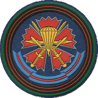 New patch of the Russian 45th Separate Reconnaissance Regiment.